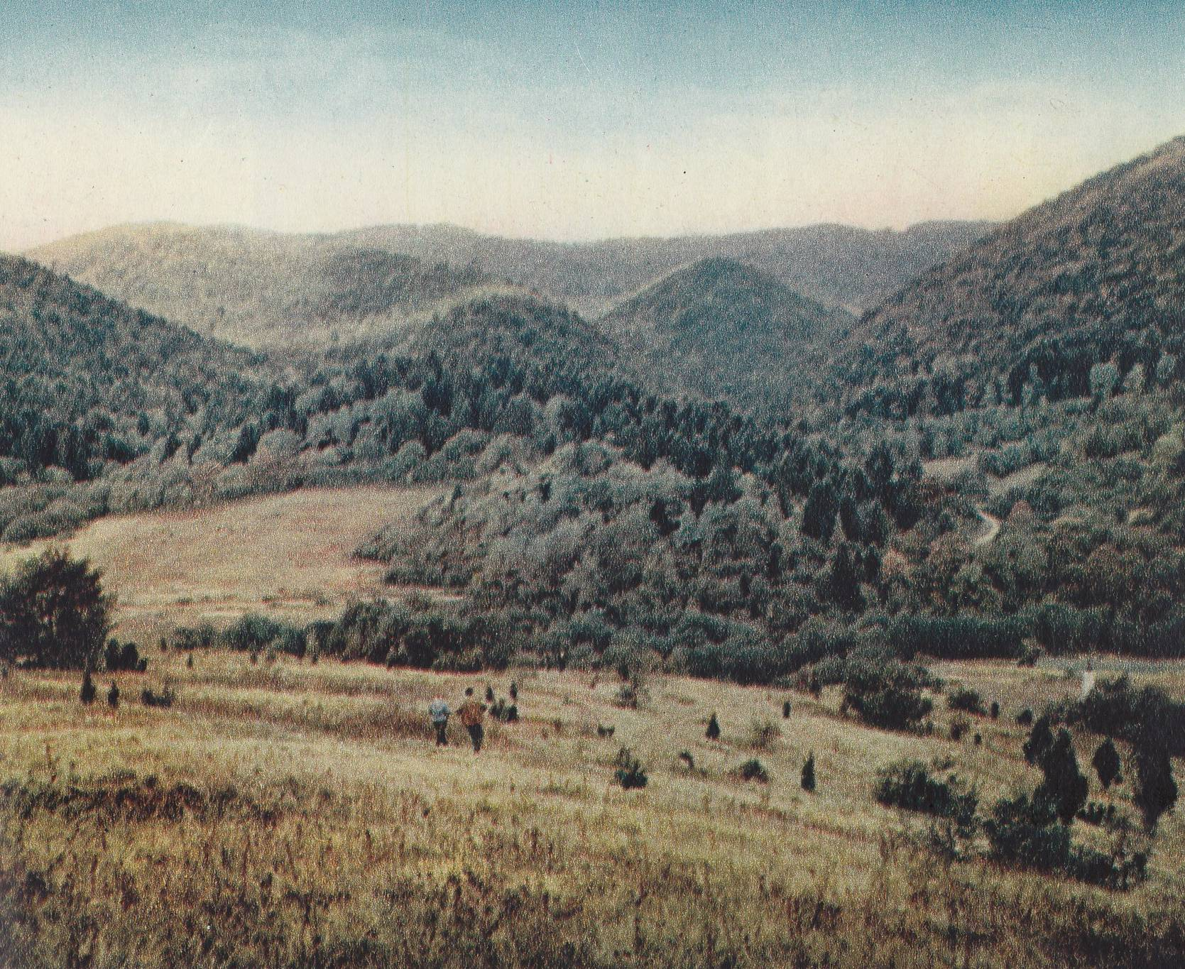 Jabłonki, monument of general Świerzczewski (right)